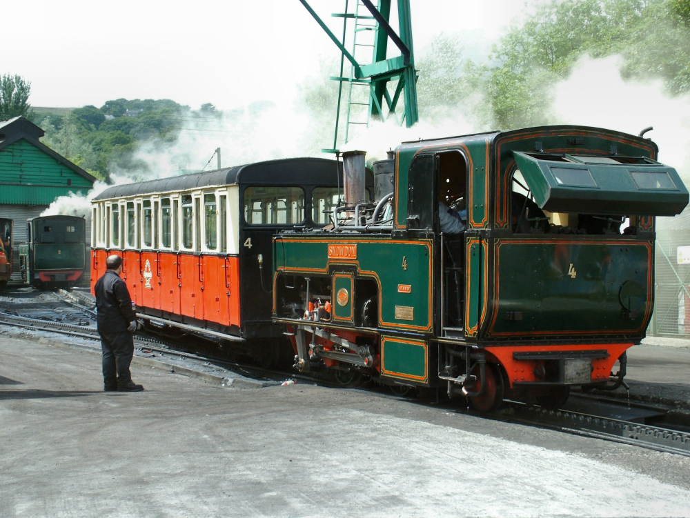 Engine No. 4 “Snowdon” of the Snowdon Mountain Railway at Llanberis yard.